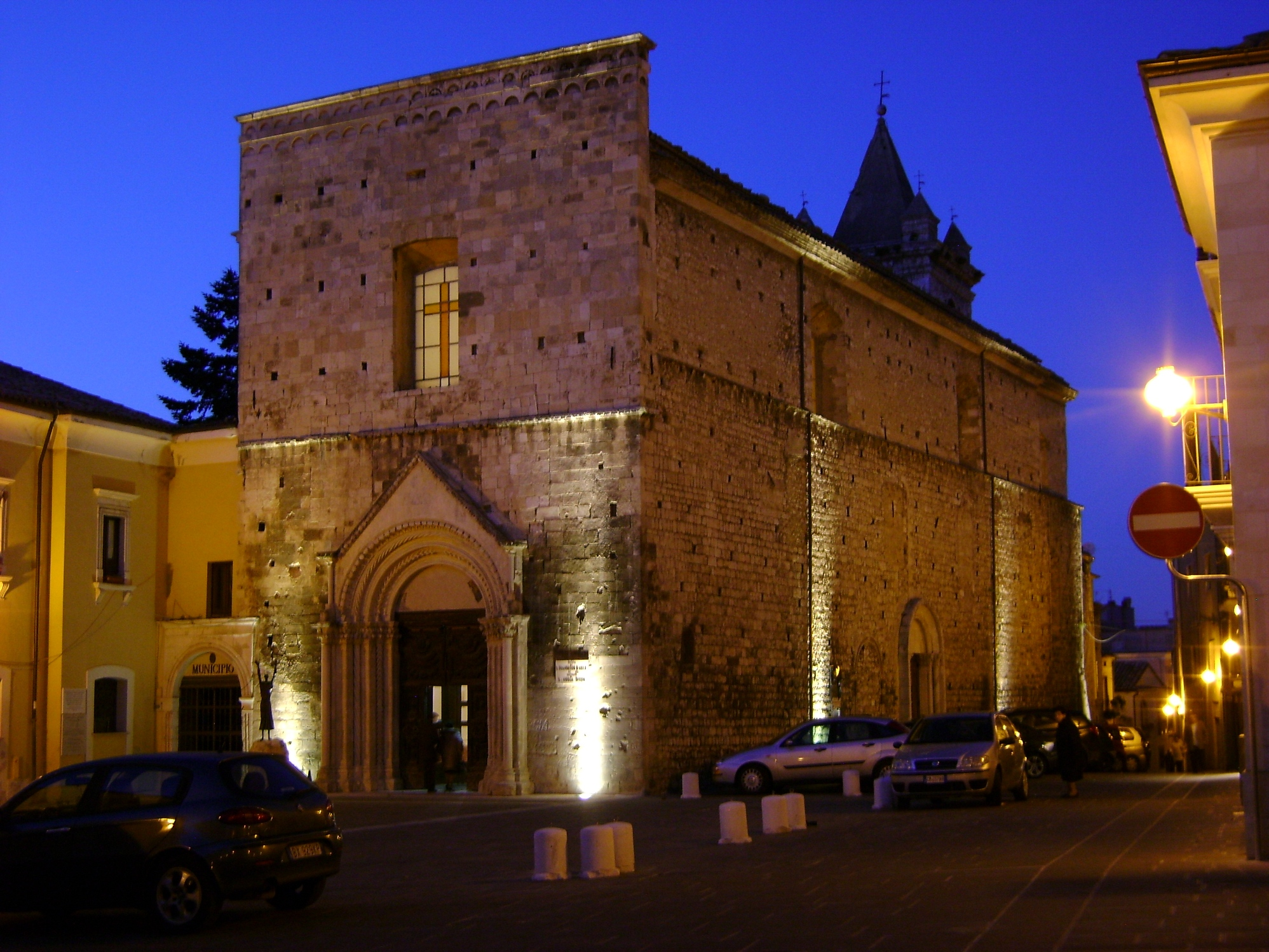 The church of San Francesco at dusk, Guardiagrele, province of Chieti, Abruzzo